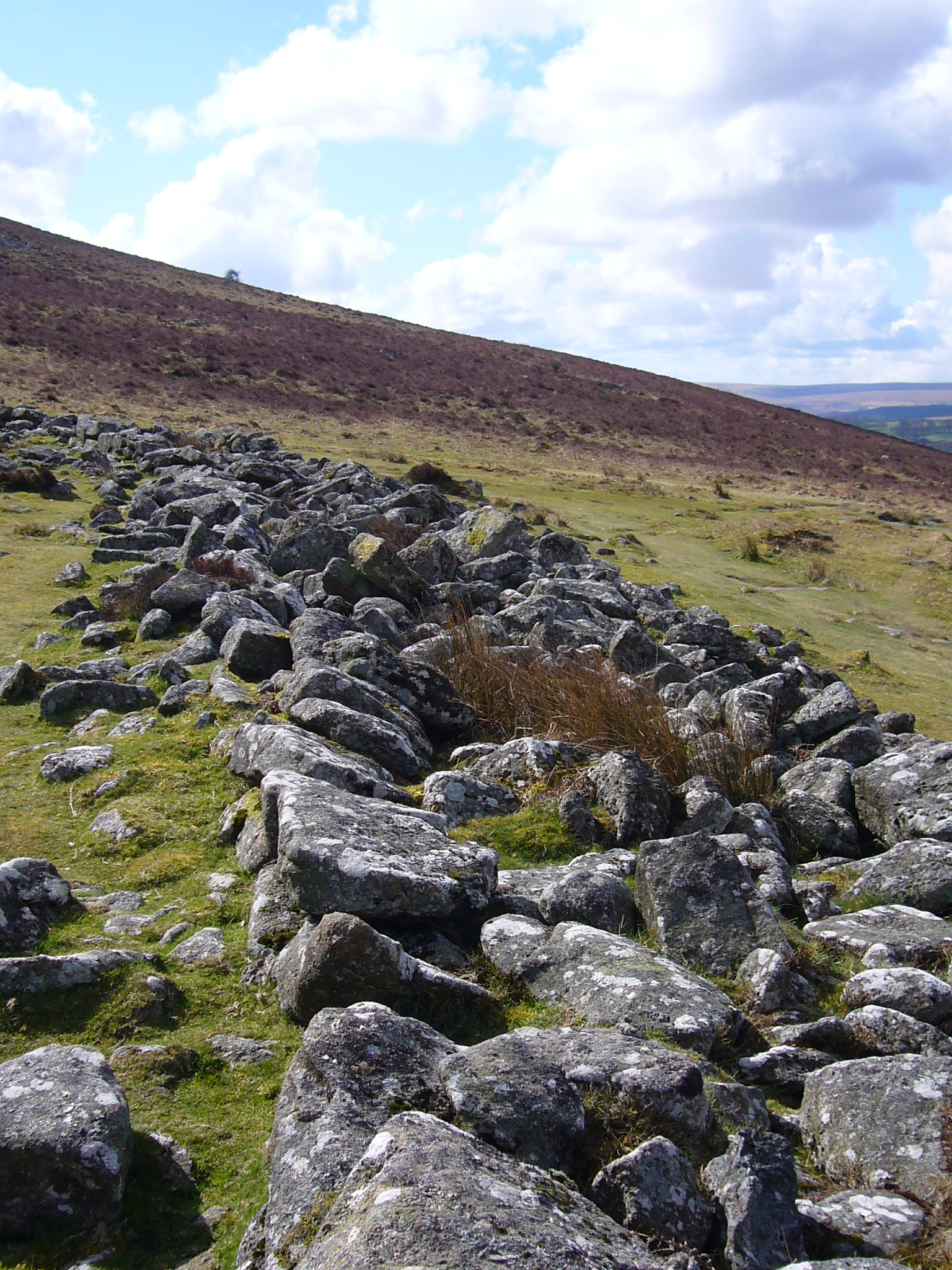 Outer boundary wall of Grimspound (a late Bronze Age settlement) on Dartmoor.